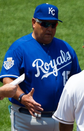 Royals bench coach Chino Cadahia - Royals at Orioles May 27, 2012